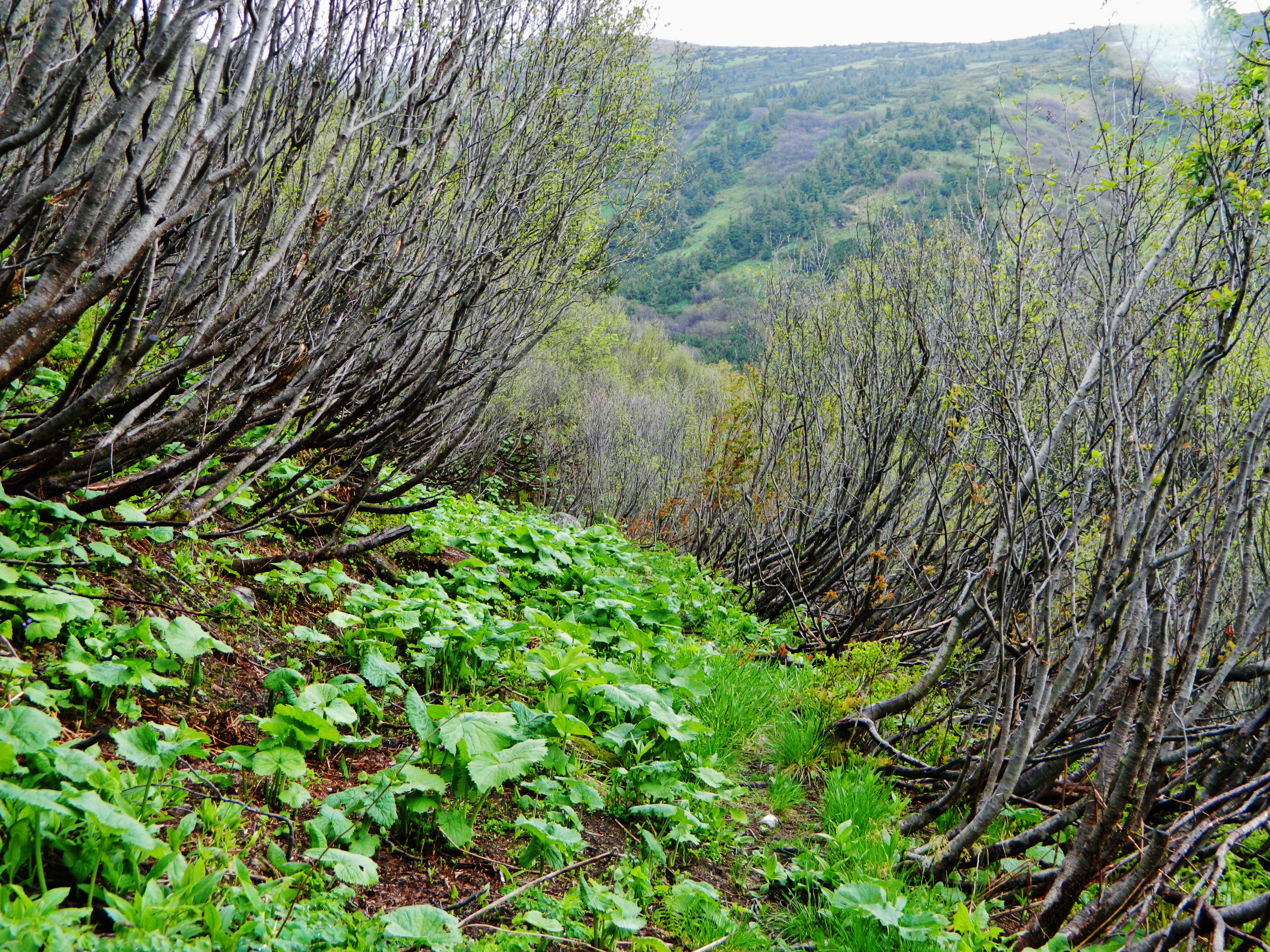 Path through the Alnus viridis Krummholz on Pozhyzhevska, Chornohora range, Ukrainian Carpathians